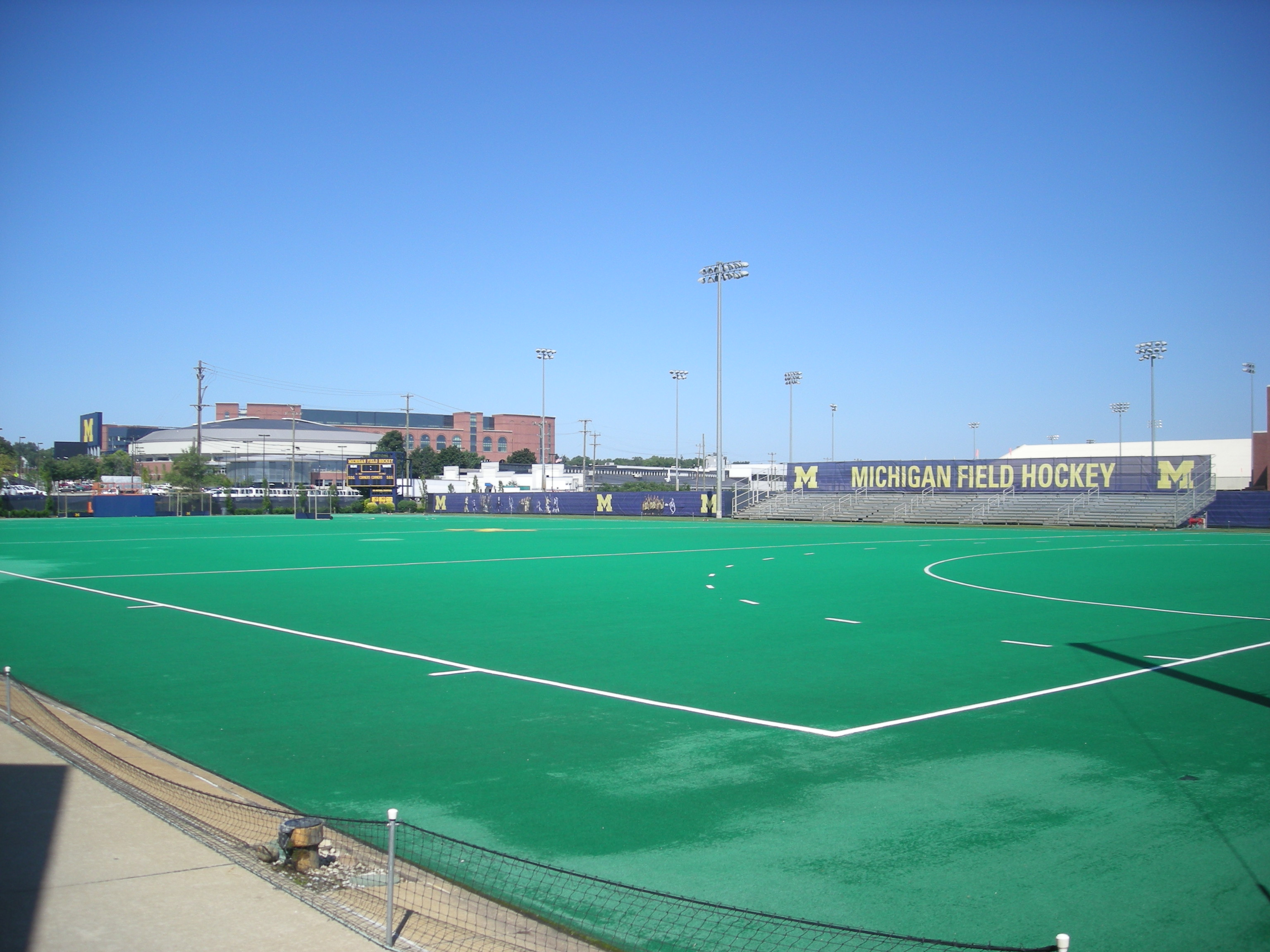 Ocker Field on the south campus of the University of Michigan in Ann Arbor, Michigan (United States).